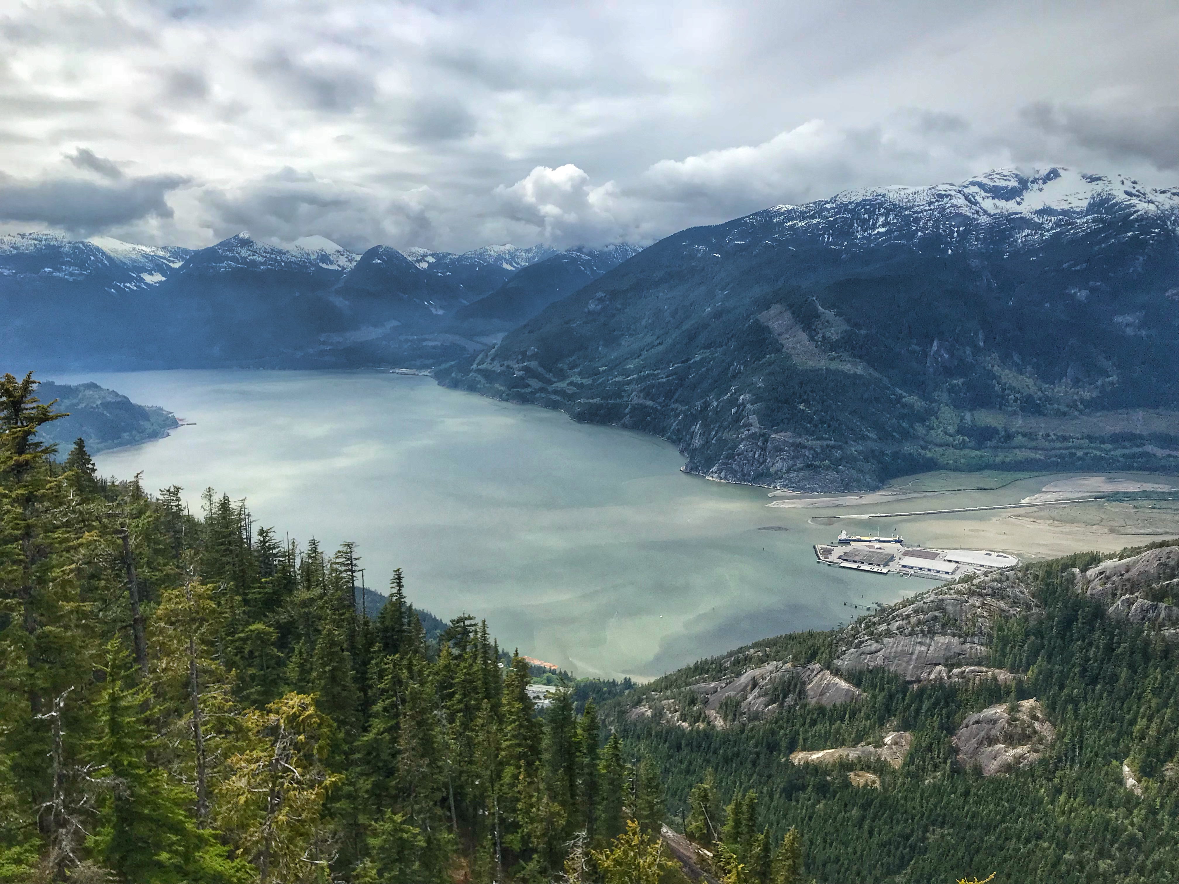 Vancouver